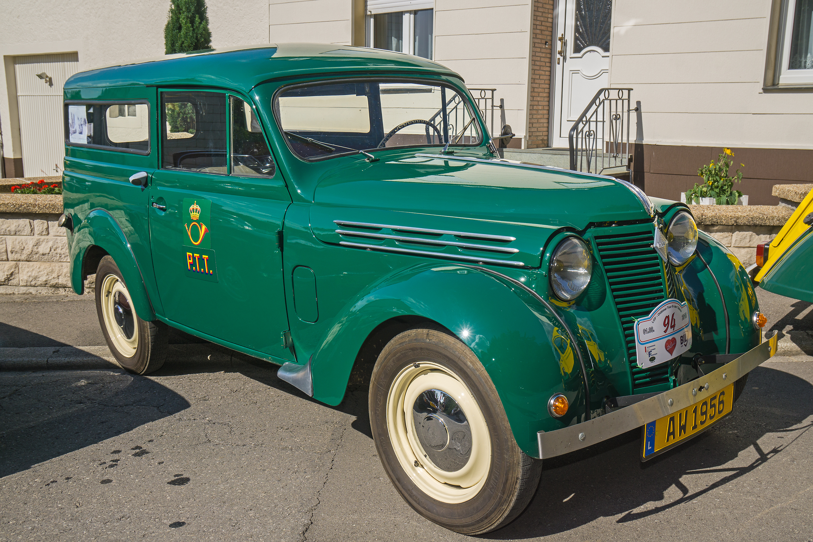 Renault Juvaquatre Break of P&T Luxembourg in Steinfort on the Vintage Cars & Bikes 2015